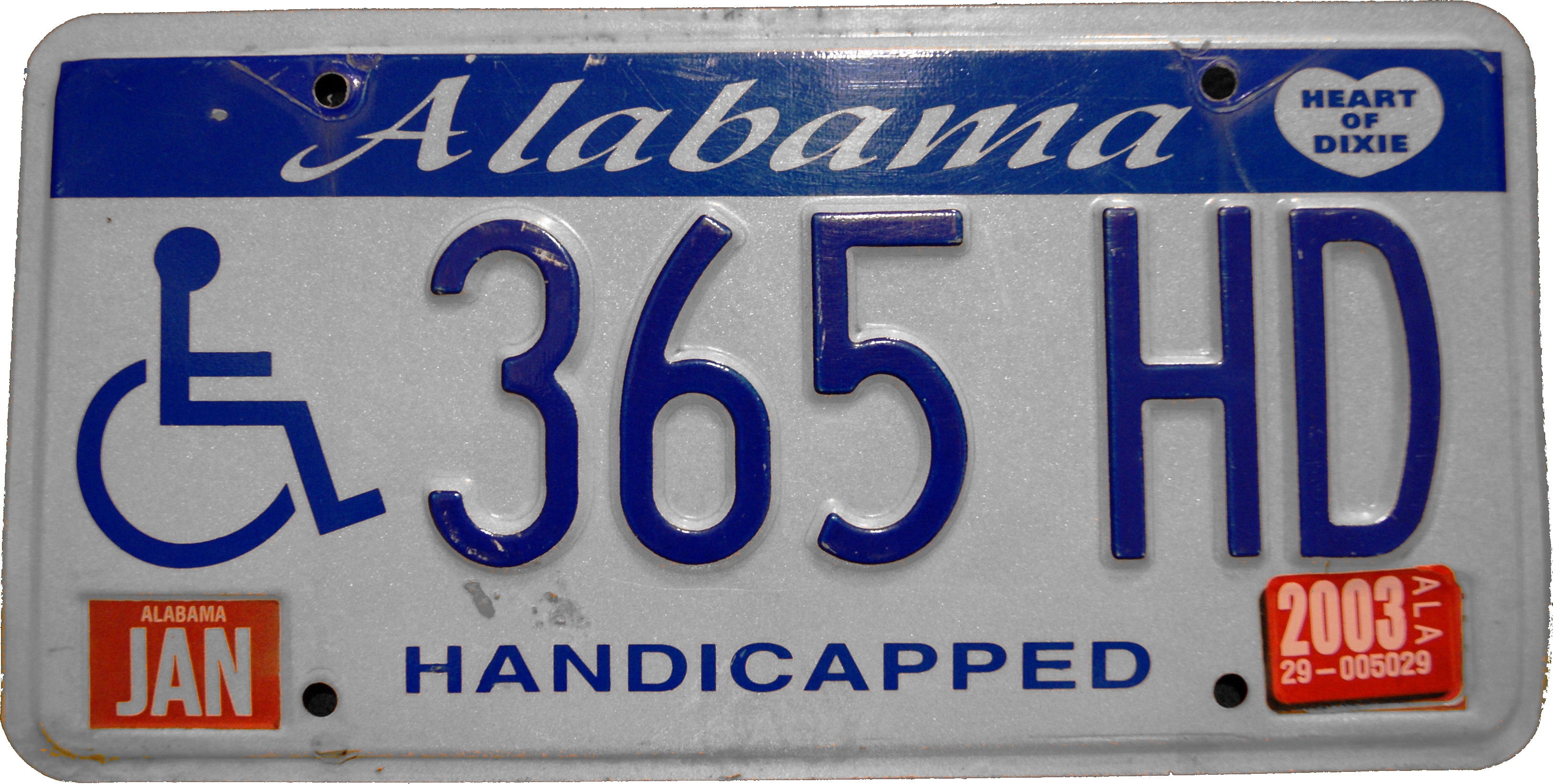 Alabama Disabled License Plate